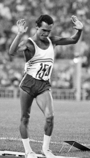 “Athlete Jordi Llopart, finishing”. Silver medalist of the 1980 Olympiad in 50km race walk Jordi Llopart, Spain, finishing. Athletics. XXII Summer Olympic Games. Central Lenin Stadium (currently, Luzhniki).